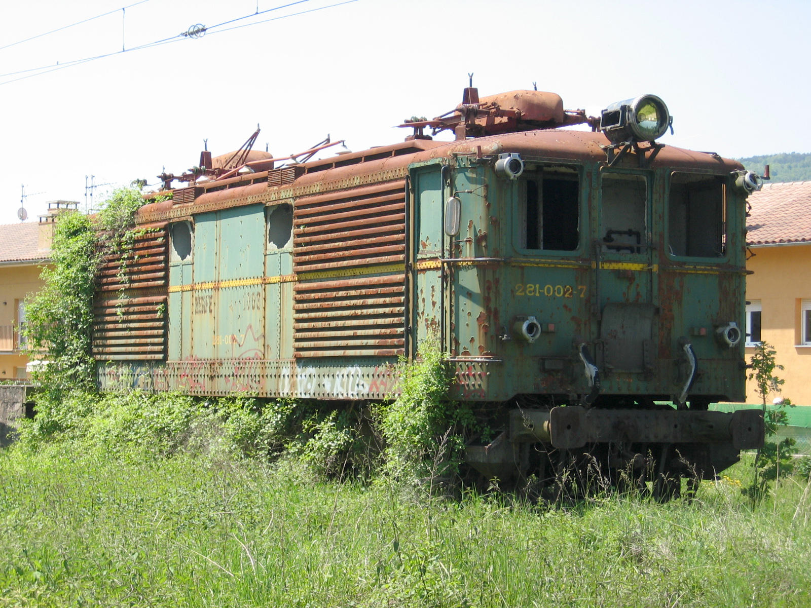 Electric locomotive 1002 series